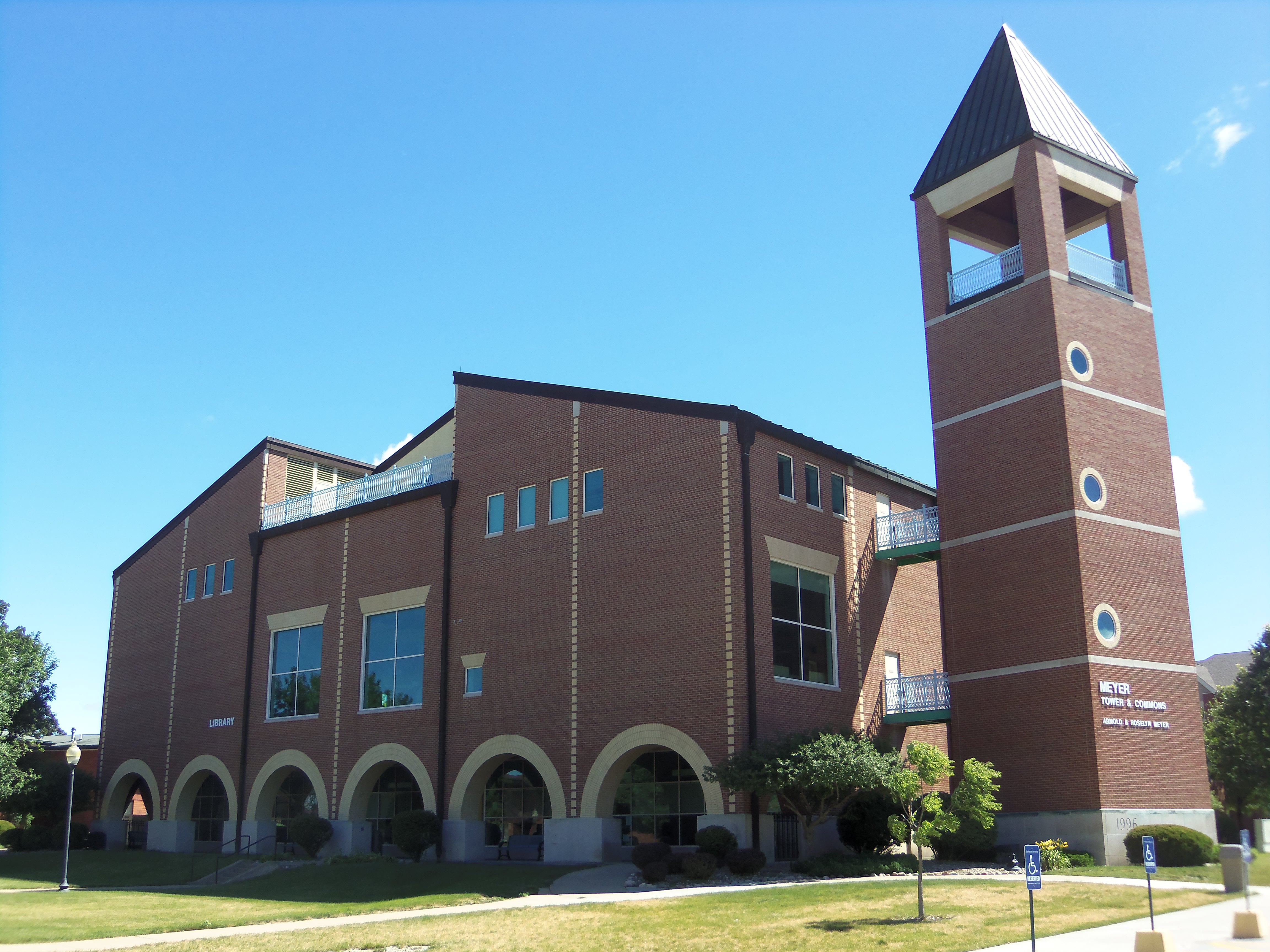 Library at St. Ambrose University in Davenport, Iowa.